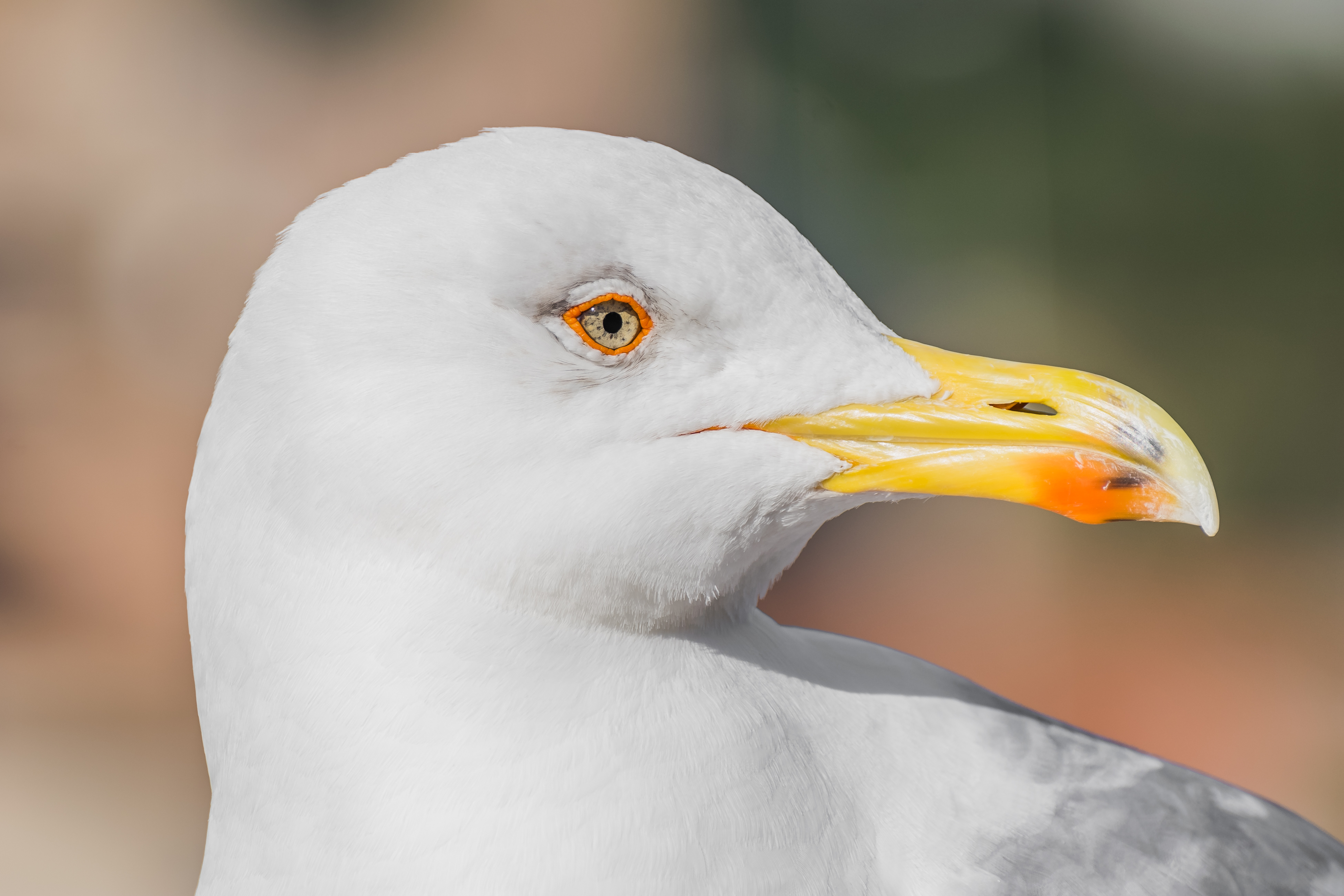 Larus michahellis in Farnese Gardens, Rome, Italy